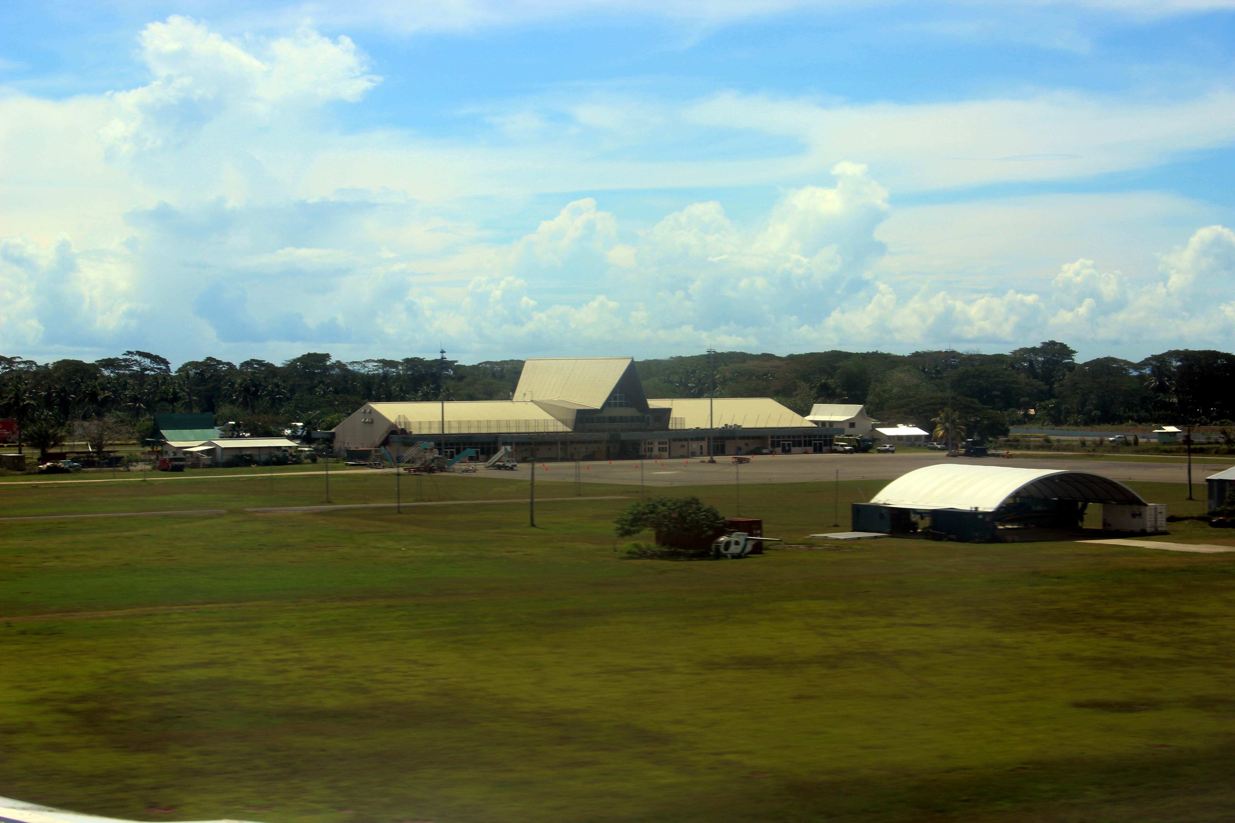 Honiara, Solomon Islands